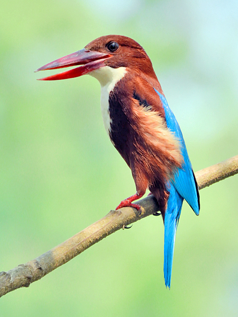 White-throated Kingfisher Halcyon smyrnensis in Mangaon, Raigad, Maharashtra